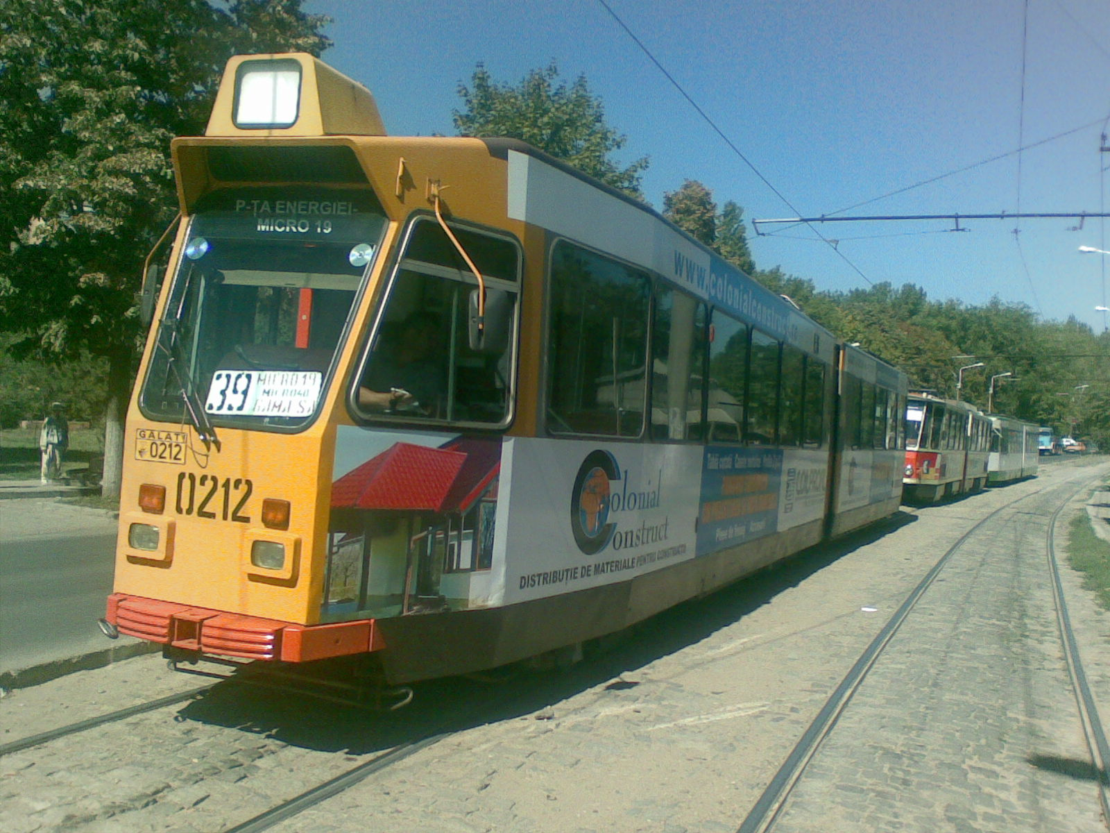 Three trams in Galaţi, Romania